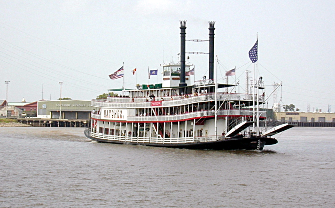 Riverboat Natchez in the Mississippi River seen from the West Bank of New Orleans. Lower French Quarter wharfs in background. Photo by Jan Kronsell, 2002.